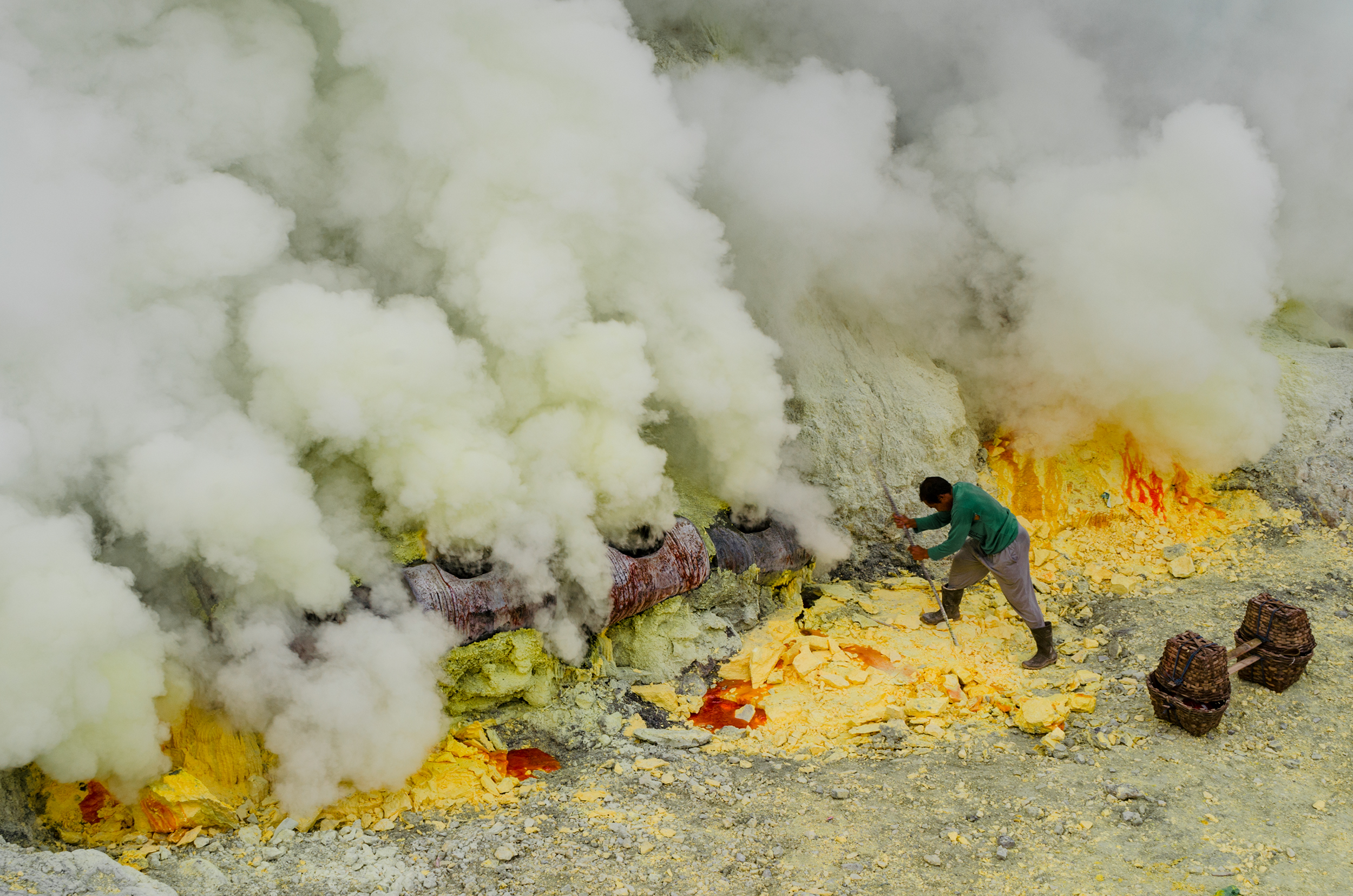 Traditional sulfur extraction at the Ijen volcano complex on the border between Banyuwangi Regency and Bondowoso Regency of East Java, Indonesia. The site is described as one of the most toxic places on earth.[1]